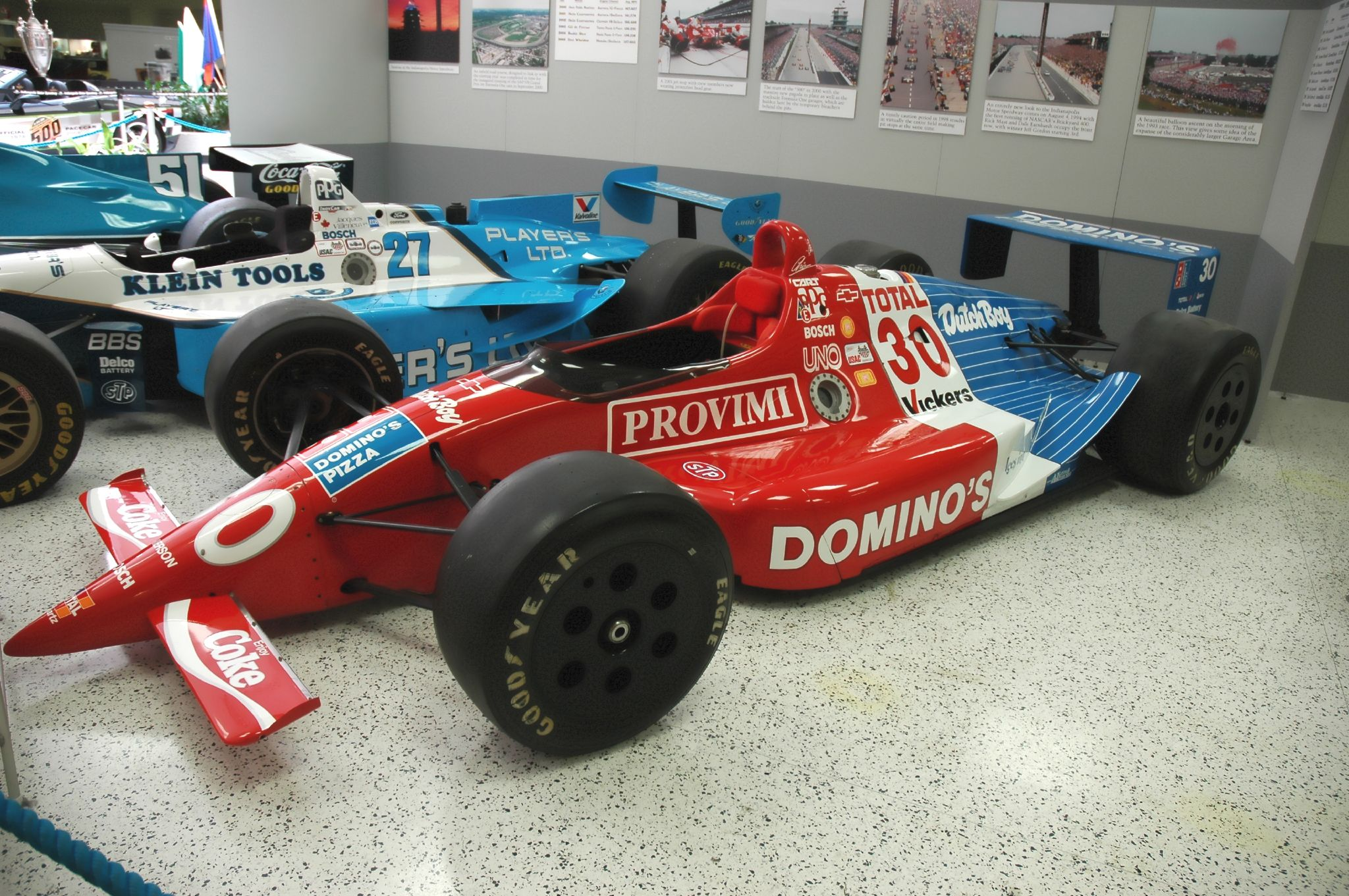 Arie Luyendyk's Lola Chevrolet in the Indianapolis Motor Speedway Hall of Fame Museum.